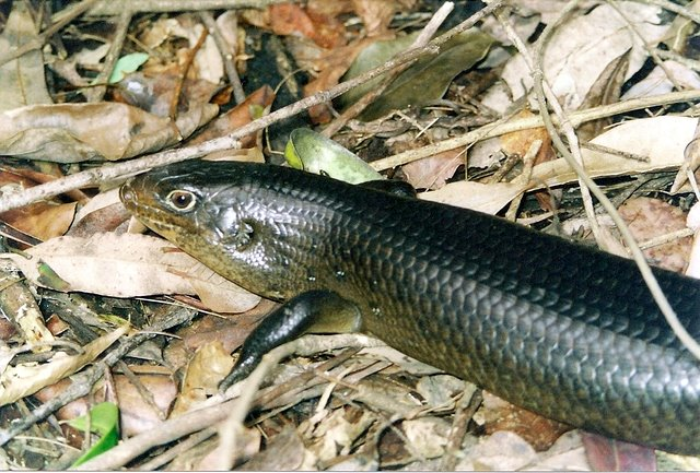 Land Mullet at Wishing Well Park, Watagans National Park, near Morriset